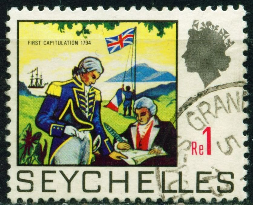 Stamp commemorating the British conquest of the Seychelles in 1794. Issued in 1969